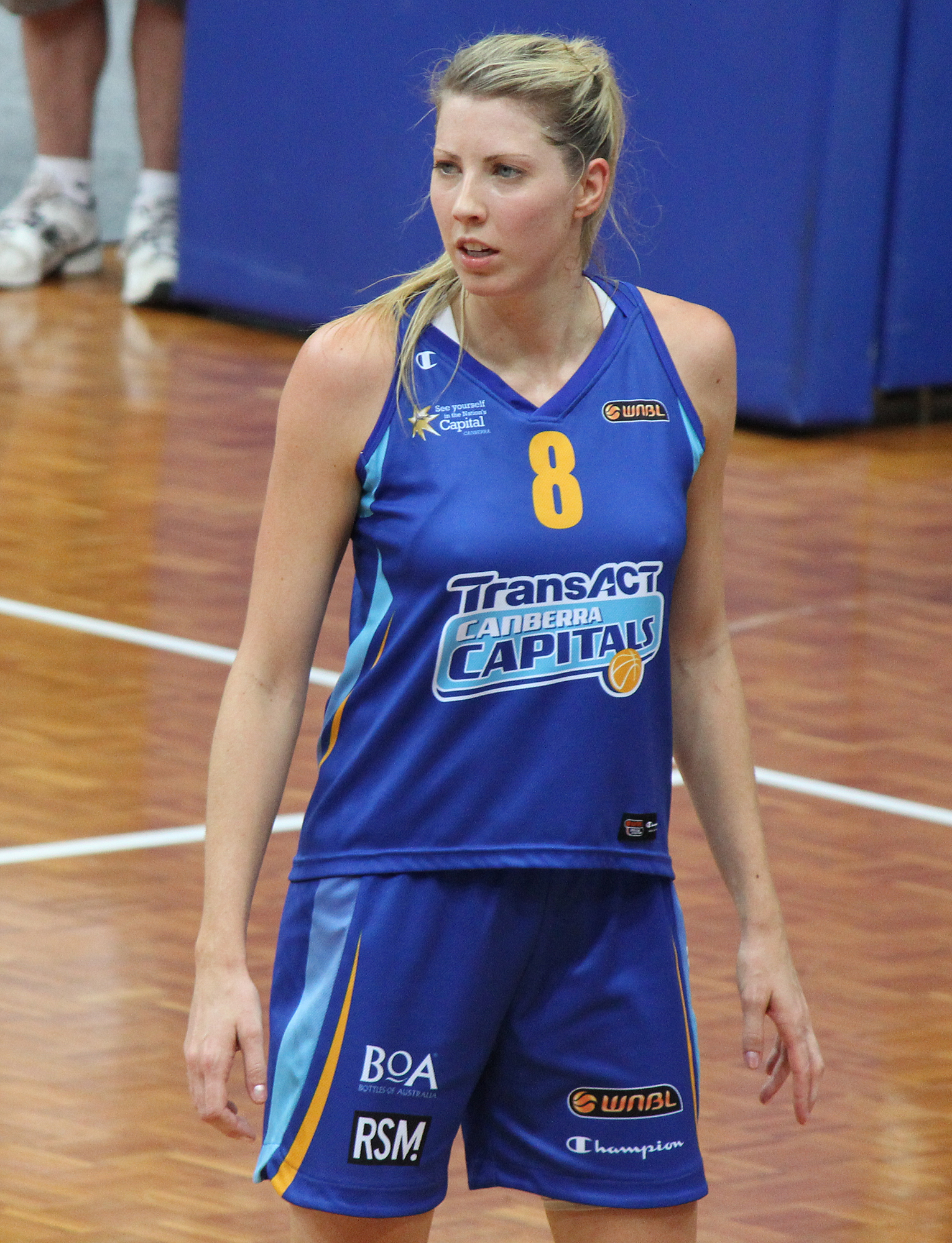 Carly Wilson } at the Canberra Capitals vs Logan Thunder held at AIS Arena at the Australian Institute of Sport.